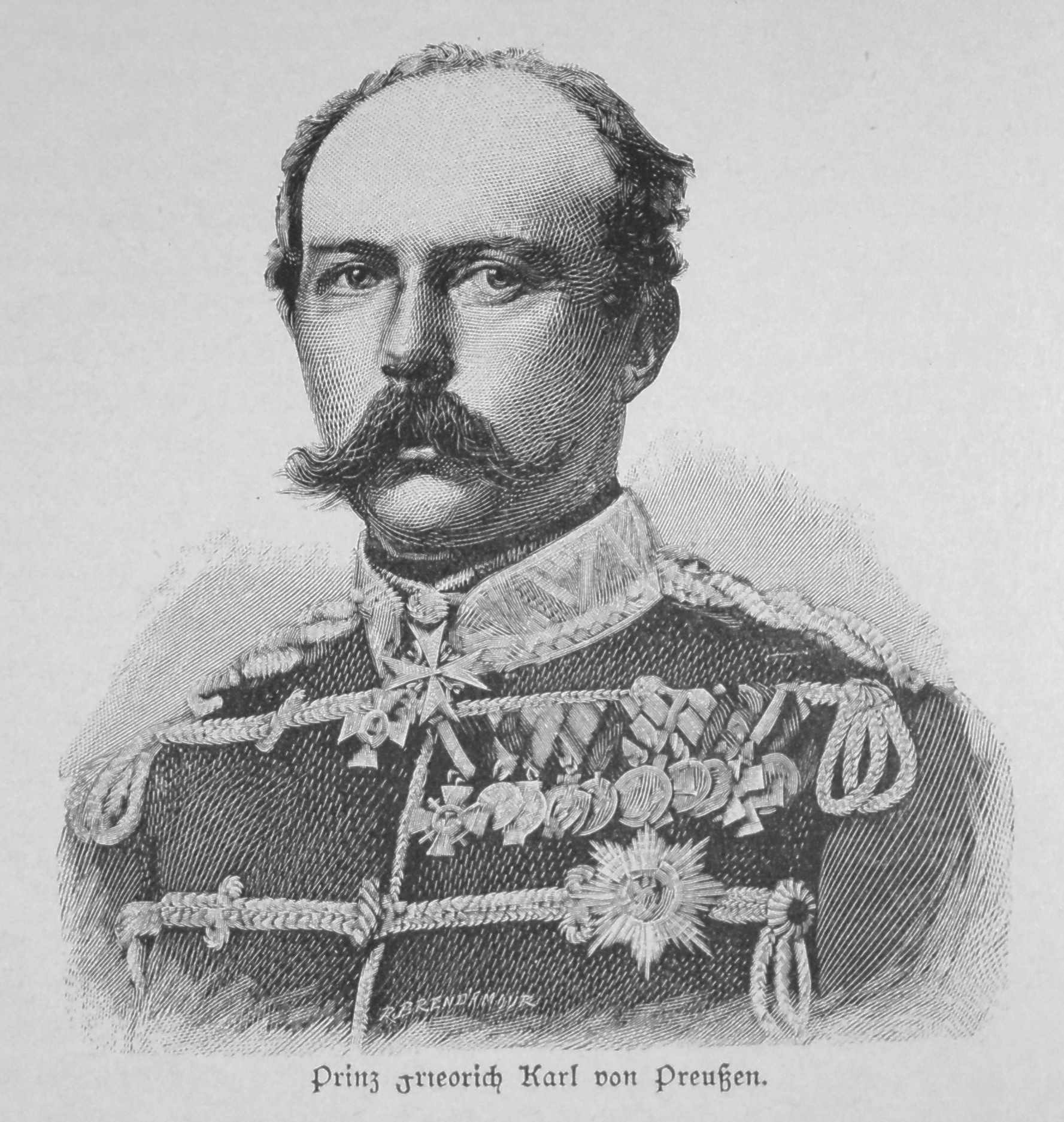 prince Frederick Charles of Prussia